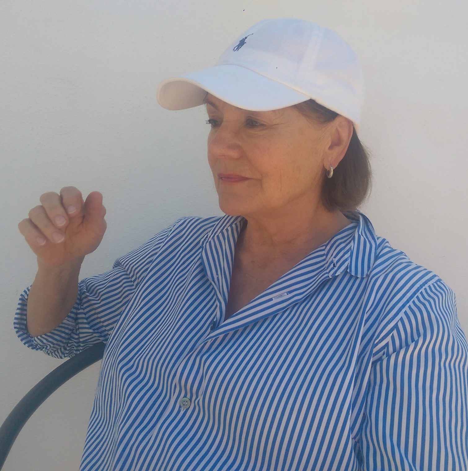 Christel Lechner visiting La Palma